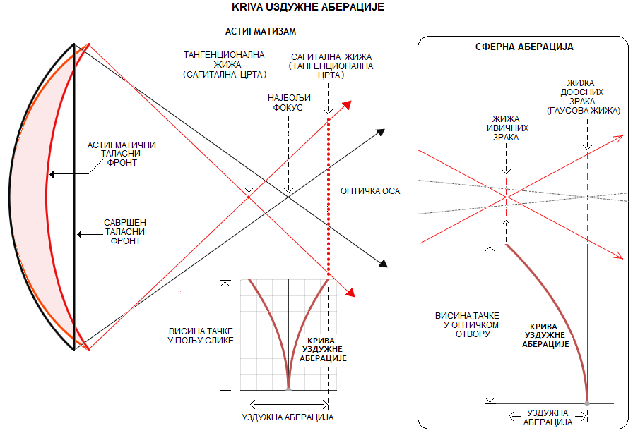 КРИВА УЗДУЖНЕ АБЕРАЦИЈЕ: ПРИМЕРИ